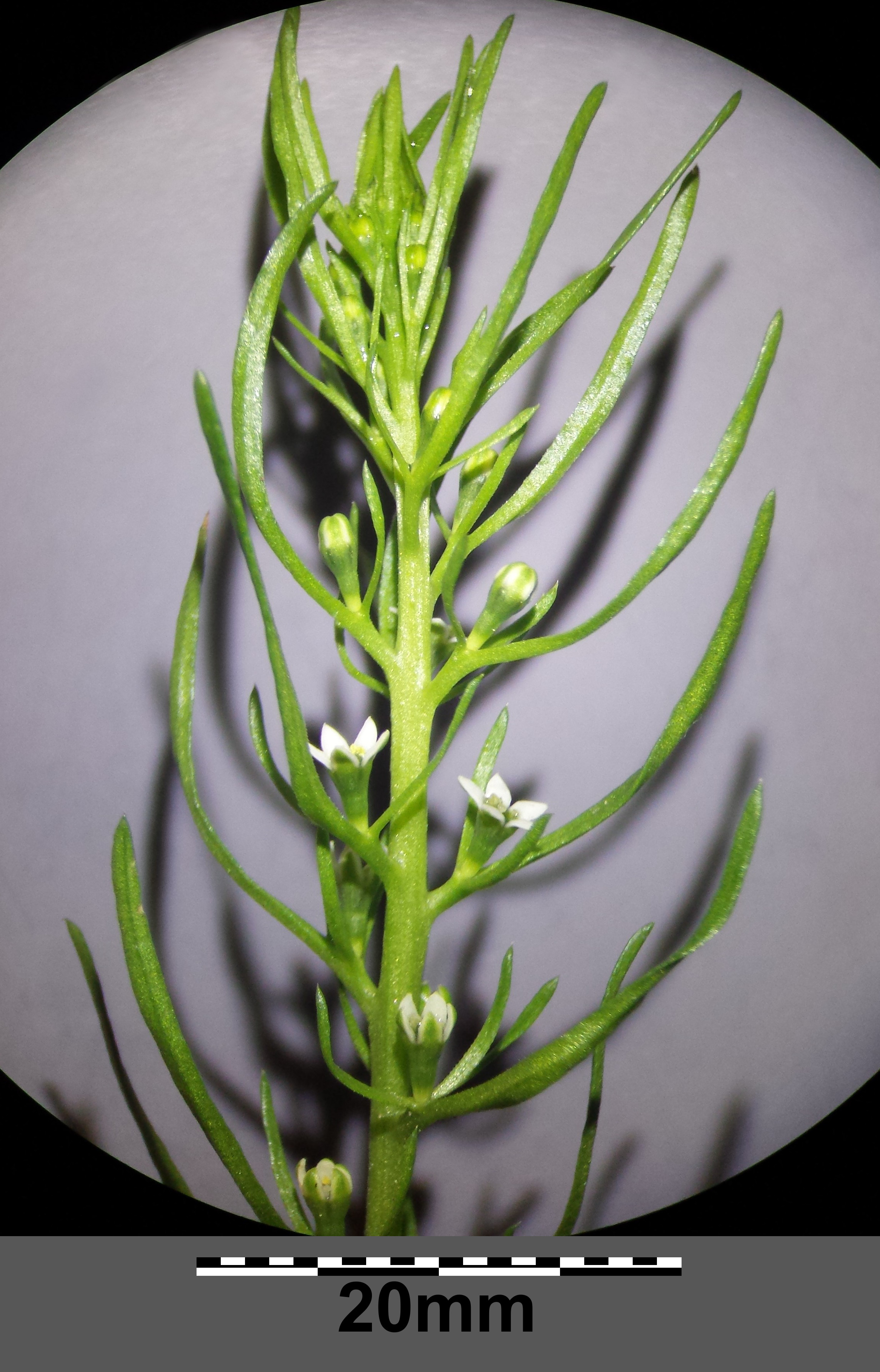 Inflorescence Taxonym: Thesium dollineri ss Fischer et al. EfÖLS 2008 ISBN 978-3-85474-187-9 Location: near Schleinbach, district Mistelbach, Lower Austria - ca. 280 m a.s.l. Habitat: slope of a way